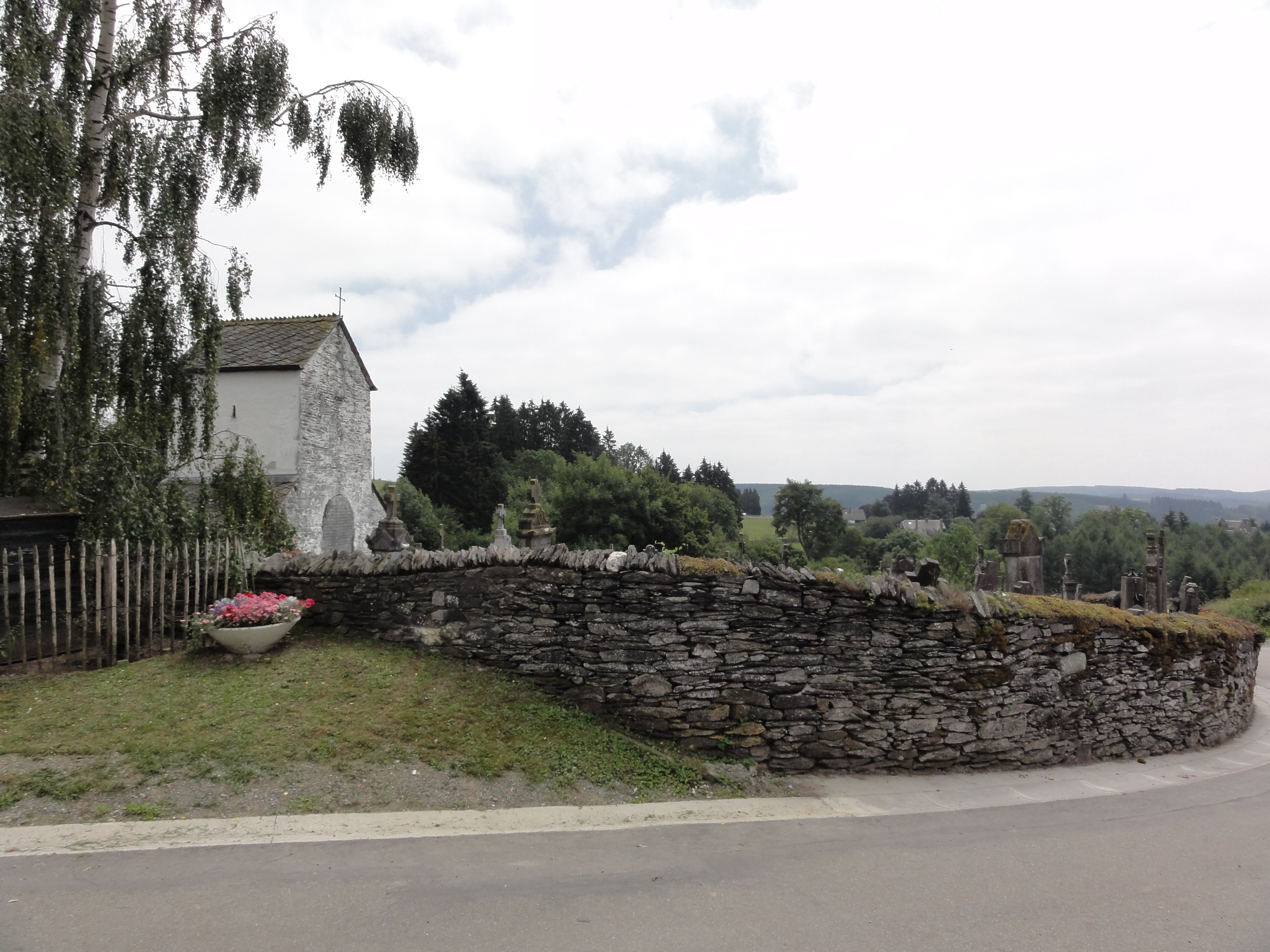 Saint Margaret's church in Ollomont, Nadrin, Houffalize, Belgium